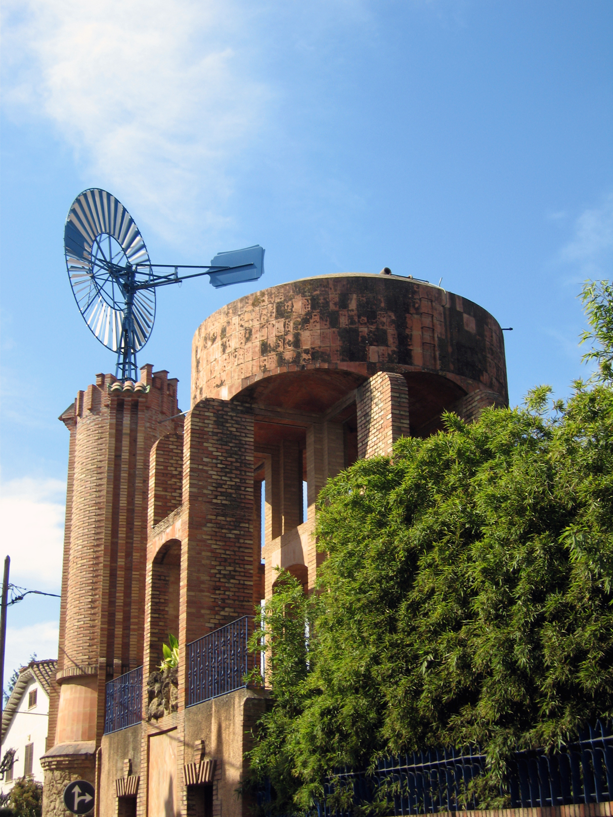 Casa Armet in Sant Cugat del Vallès (Catalonia).